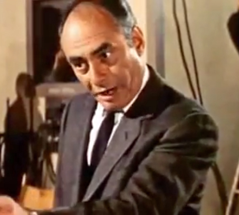 Martin Balsam in trailer for "The Carpetbaggers" (1964)